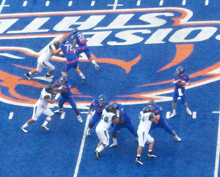 Boise State QB Kellen Moore protected by his offensive line while attempting a pass during their game vs Hawaii at Bronco Stadium in Boise, ID on November 6, 2010.